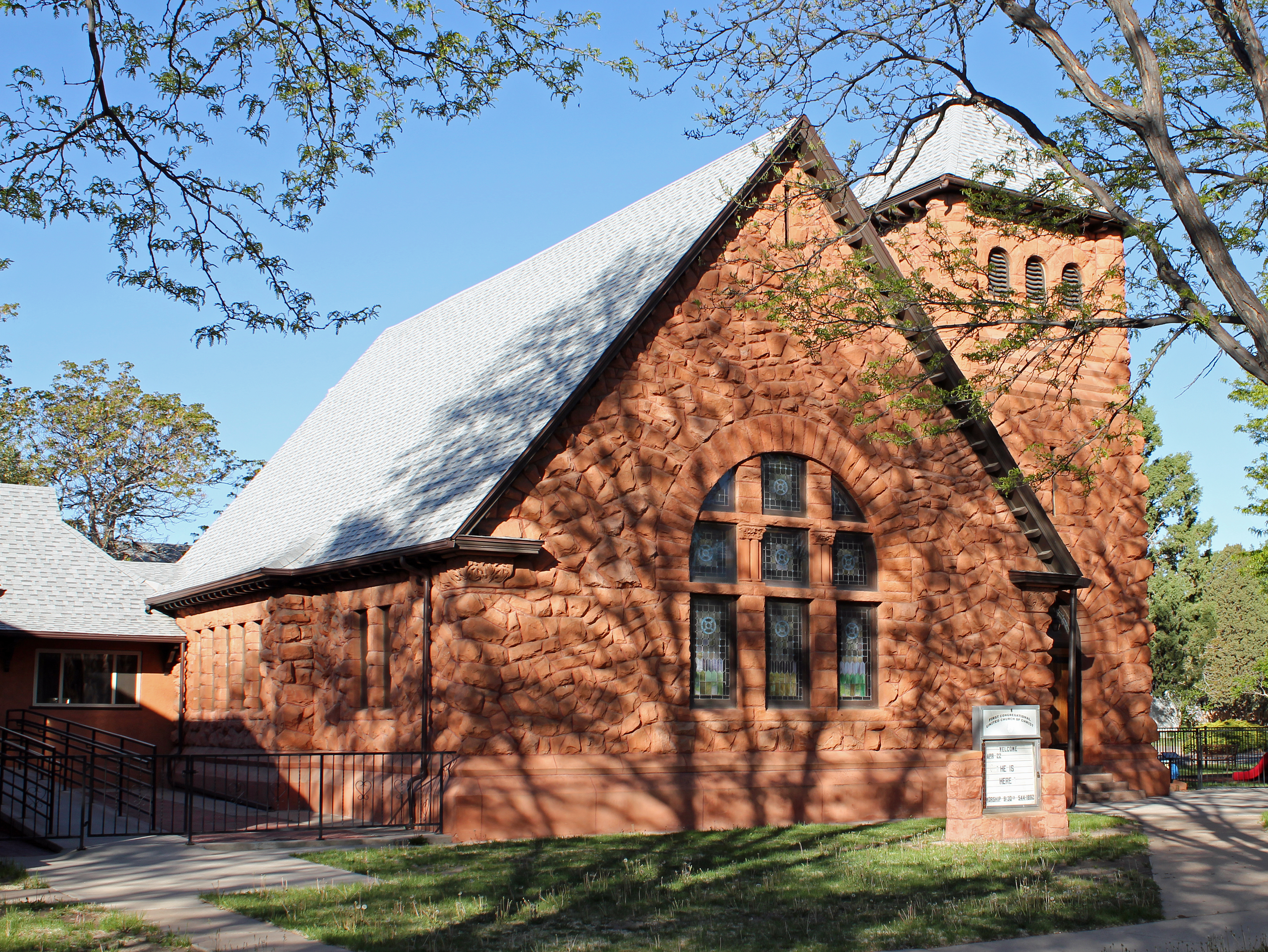 The First Congregational Church, located at 228 West Evans in Pueblo, Colorado. The church is listed on the National Register of Historic Places.